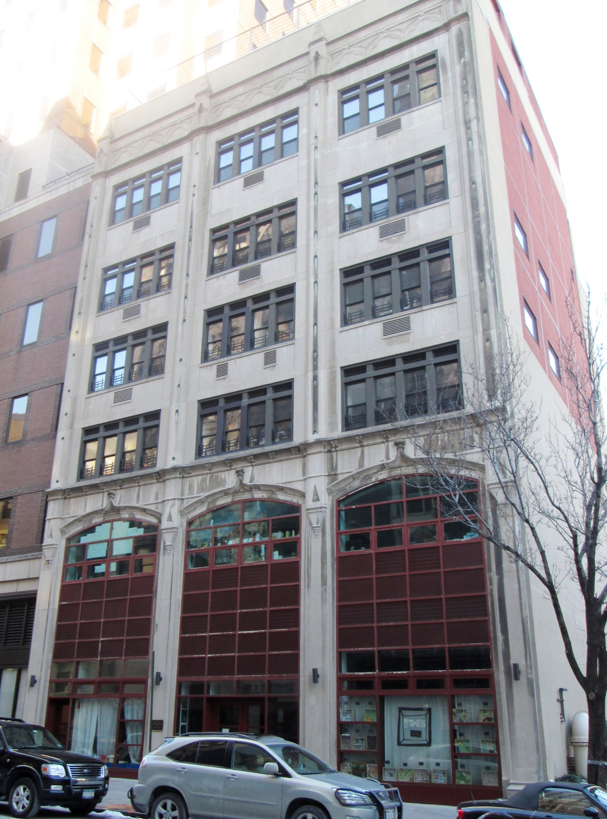 153 Pierrepont Street at Cadman Plaza Plaza West in the Brooklyn Heights neighborhood of Brooklyn, Nww York City is the Lower School Building of Saint Ann's School. The building was originally four row houses at 151-157 Pierrepont, built c.1850-1870, that were combined together c.1897 as the Wilson Building, which was used by the Commonwealth Masonic Lodge. The Lodge moved out in 1910, but continued to rent out the Commonwealth Masonic Hall until c.1915, when it was converted for use as offices. Around 1925-27, the building underwent a major renovation for better use as a commercial office building. It received a new facade at this time. Saint Ann's School purchased the building in 2001 and opened it as the Farber Building for the 2003-2004 school year. (Sources: "Architectural overview" and "History" on the Saint Ann's School website])